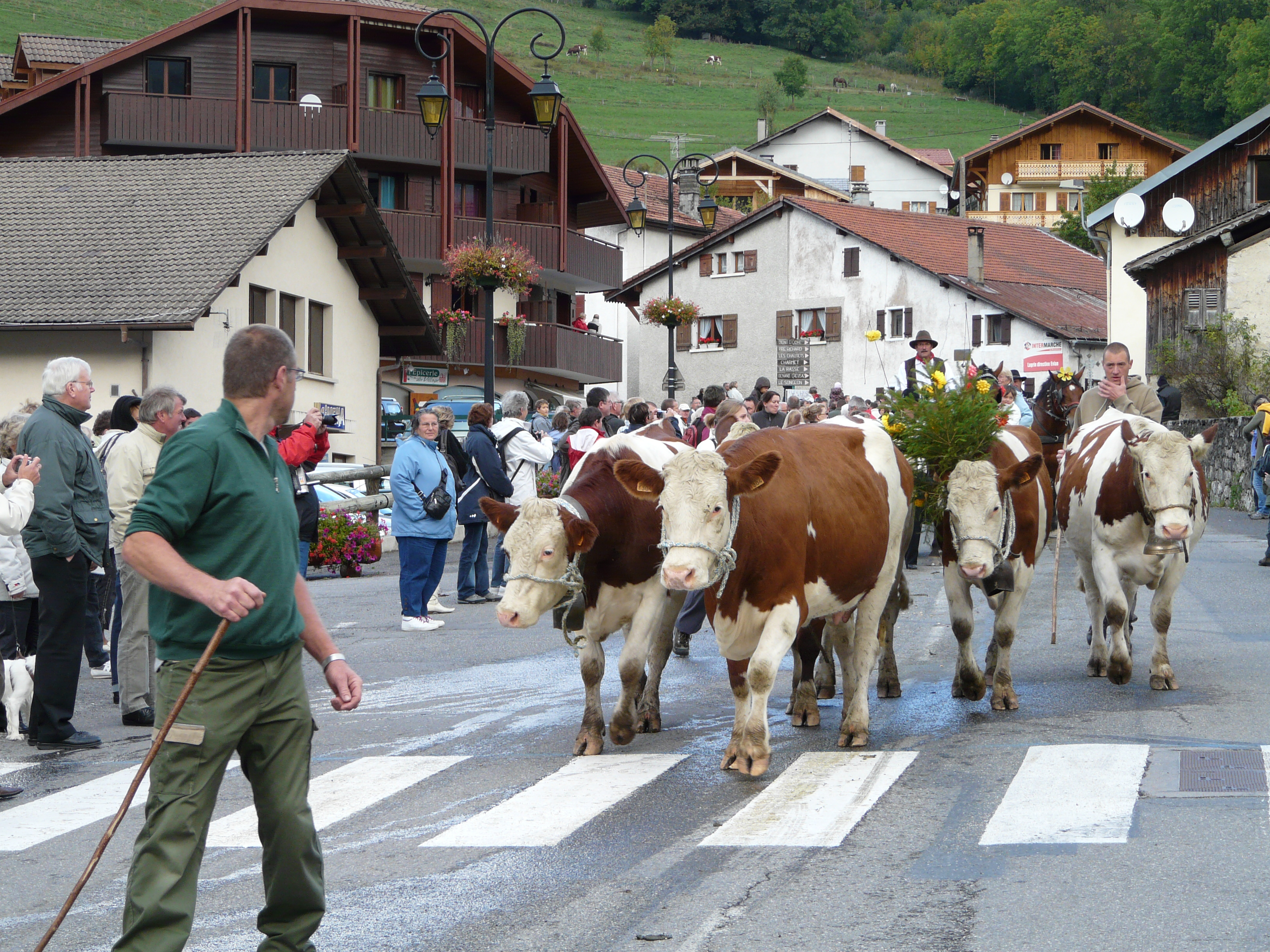 "Démontagnée" or descent from the alpine pastures for winter, Bernex (Haute-Savoie) late September